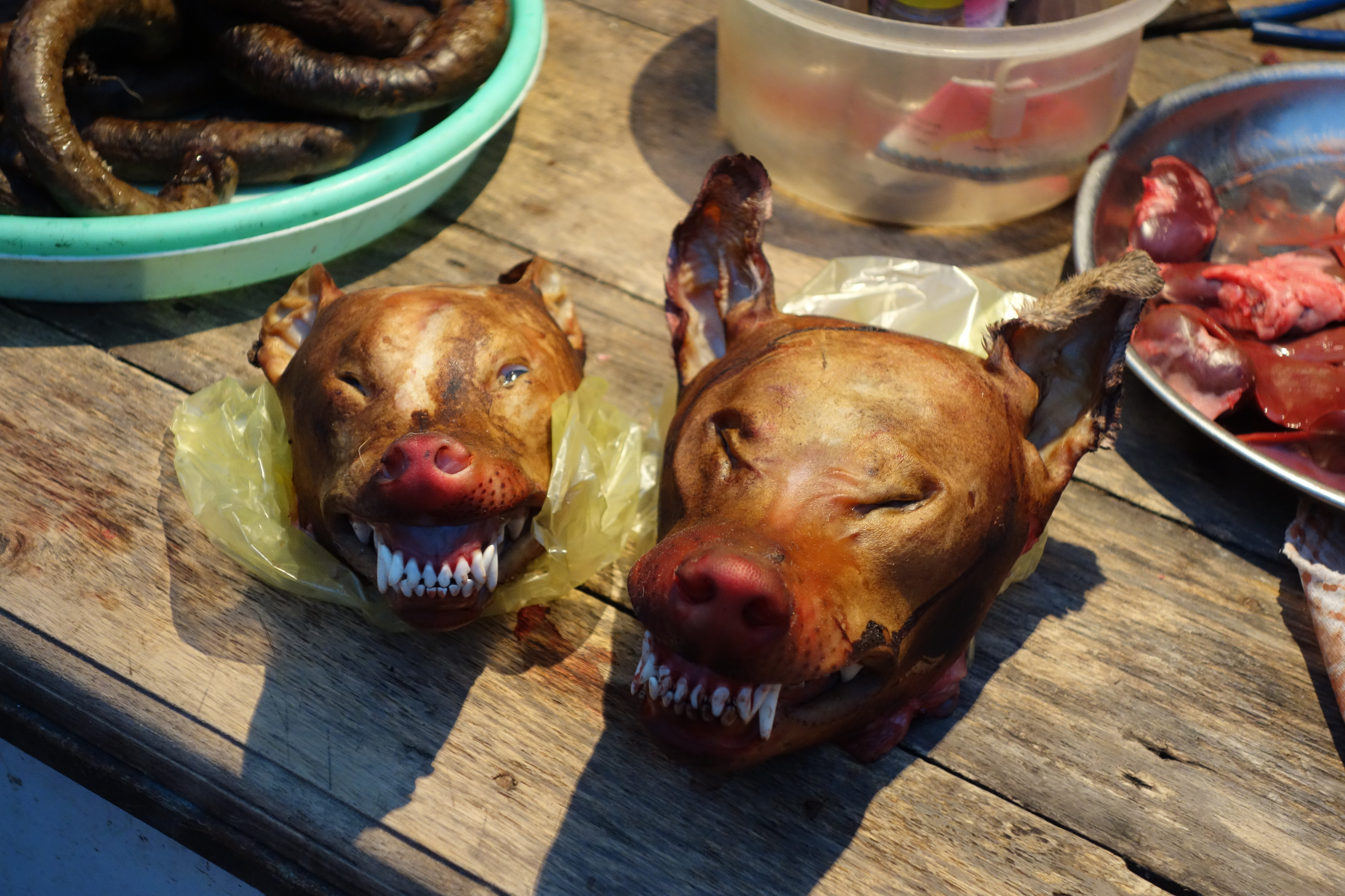 Dog meat at a market stall in Ninh Binh